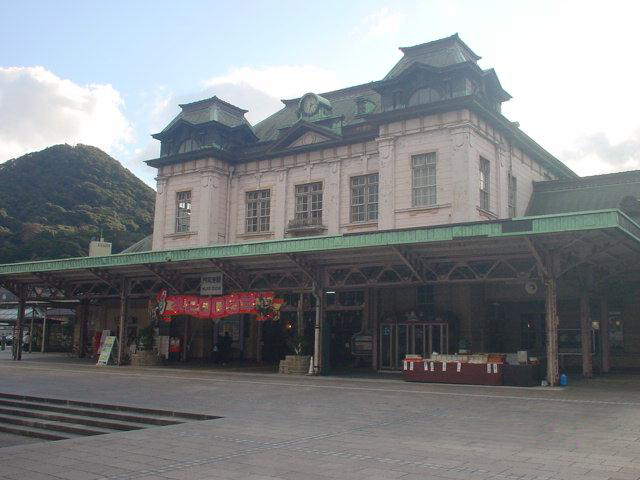 Moji-ko Station, Kitakyushu Taken and uploaded by Ian Ruxton (Historian)